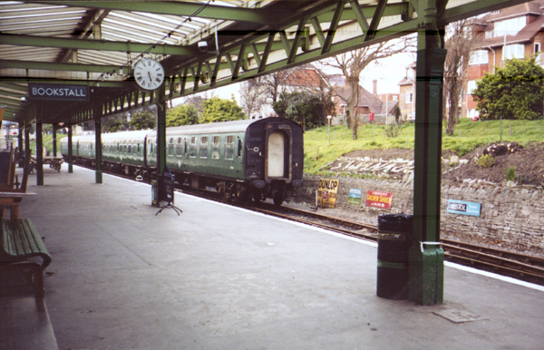 Swanage railway station, Dorset, by user:Steinsky